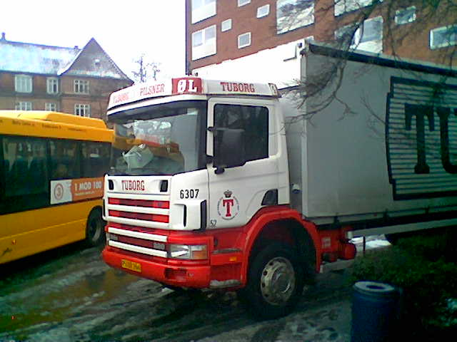 A Tuborg truck